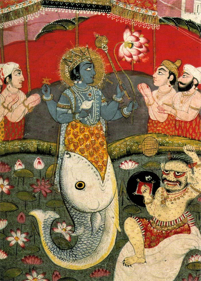 Incarnation of Vishnu as a Fish, from a devotional text. (image actually taken from English Wikipedia)